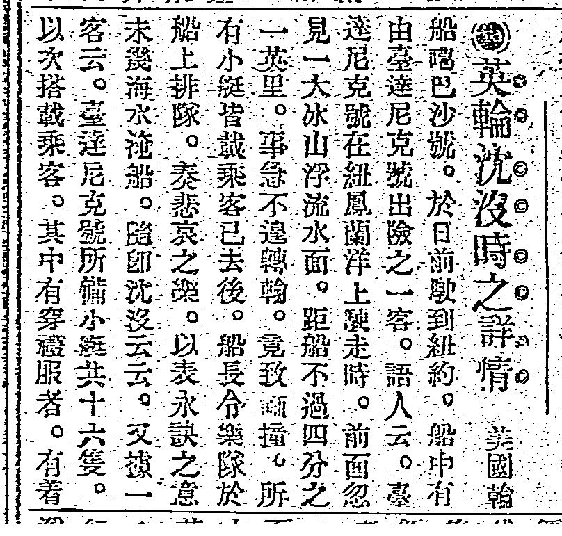 News about the Titanic on Taiwan Nichi Nichi Shimpo.